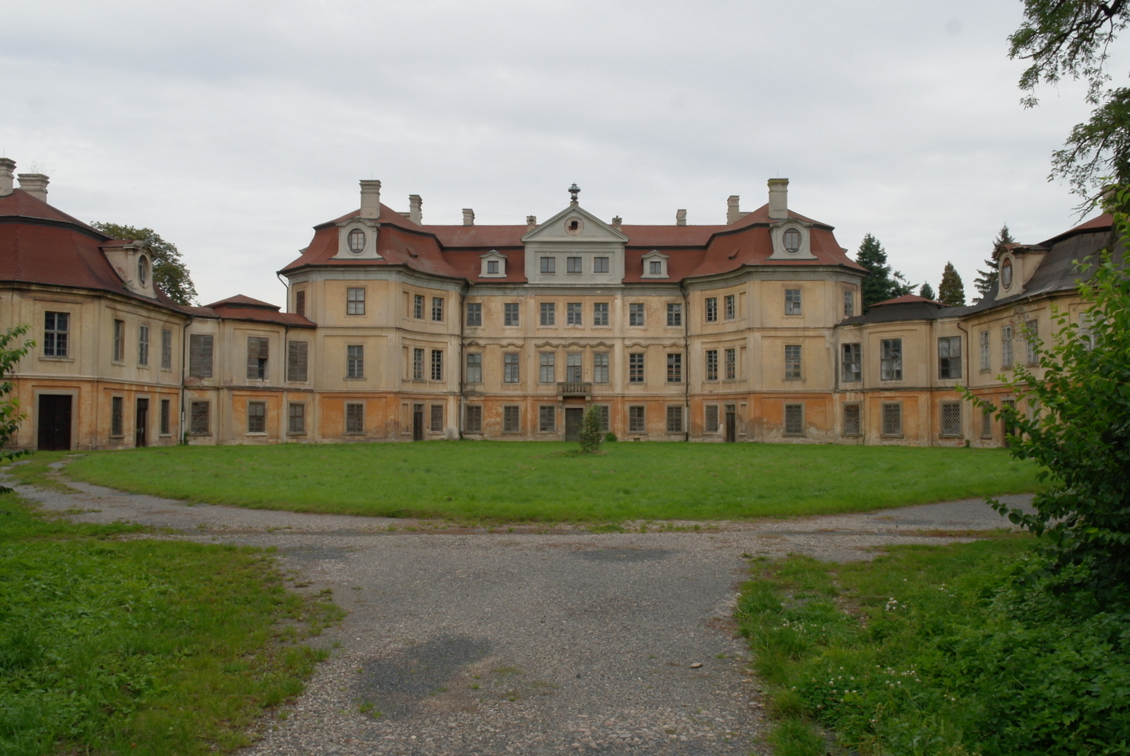 Chateau Hořín, Hořín 1 Baroque chateau of Lobkowicz, built in 1696 The courtyard